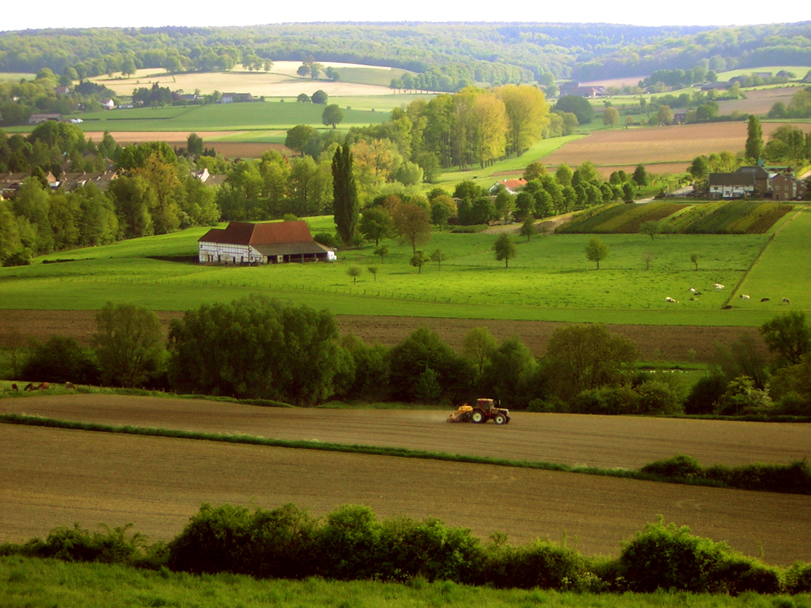 View from the Schneeberg (Aachen) in Germany to Oud-Lemiers in the Netherlands